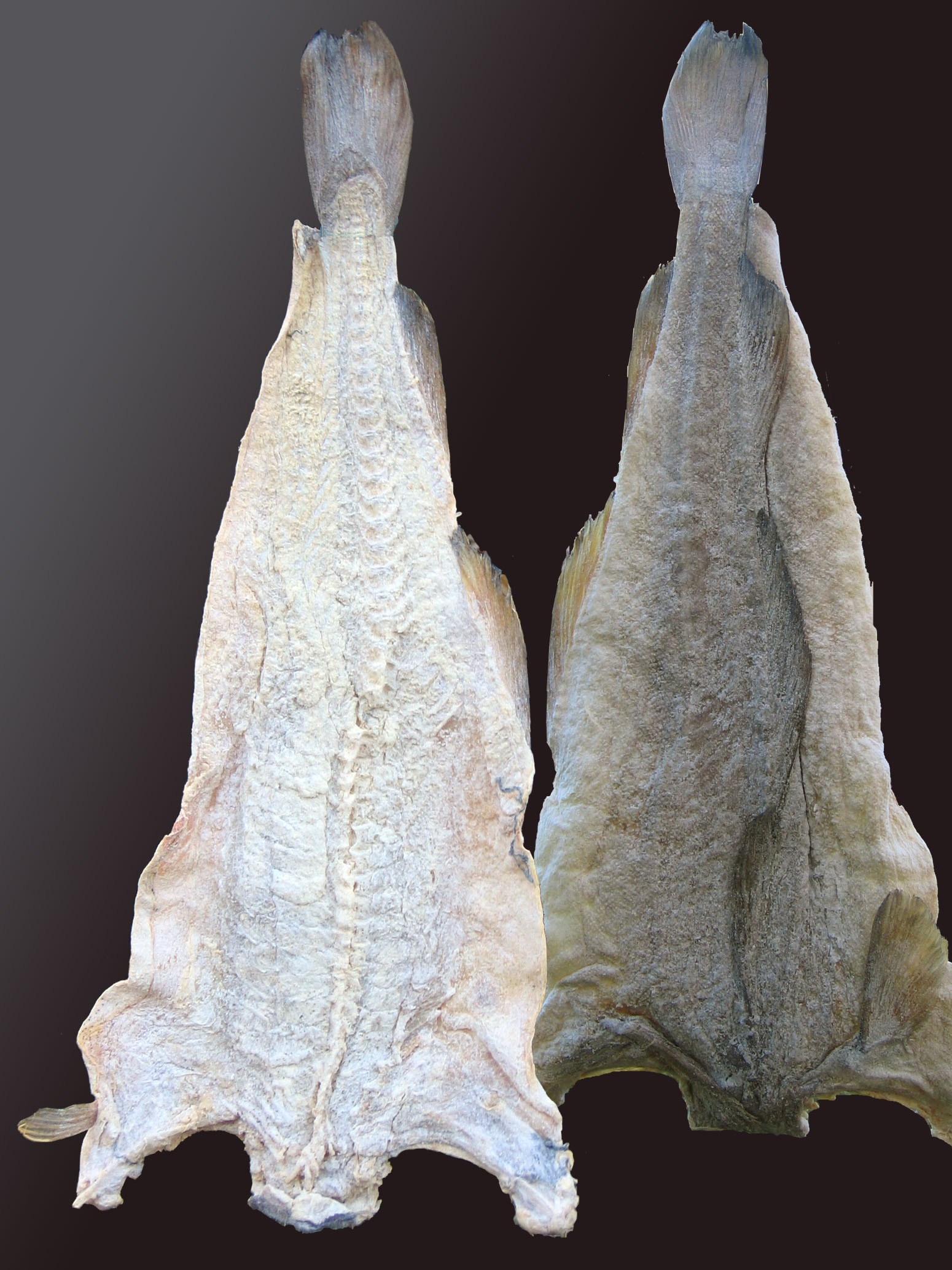 Klippfisk Bacalao made in Kristiansund, Norway